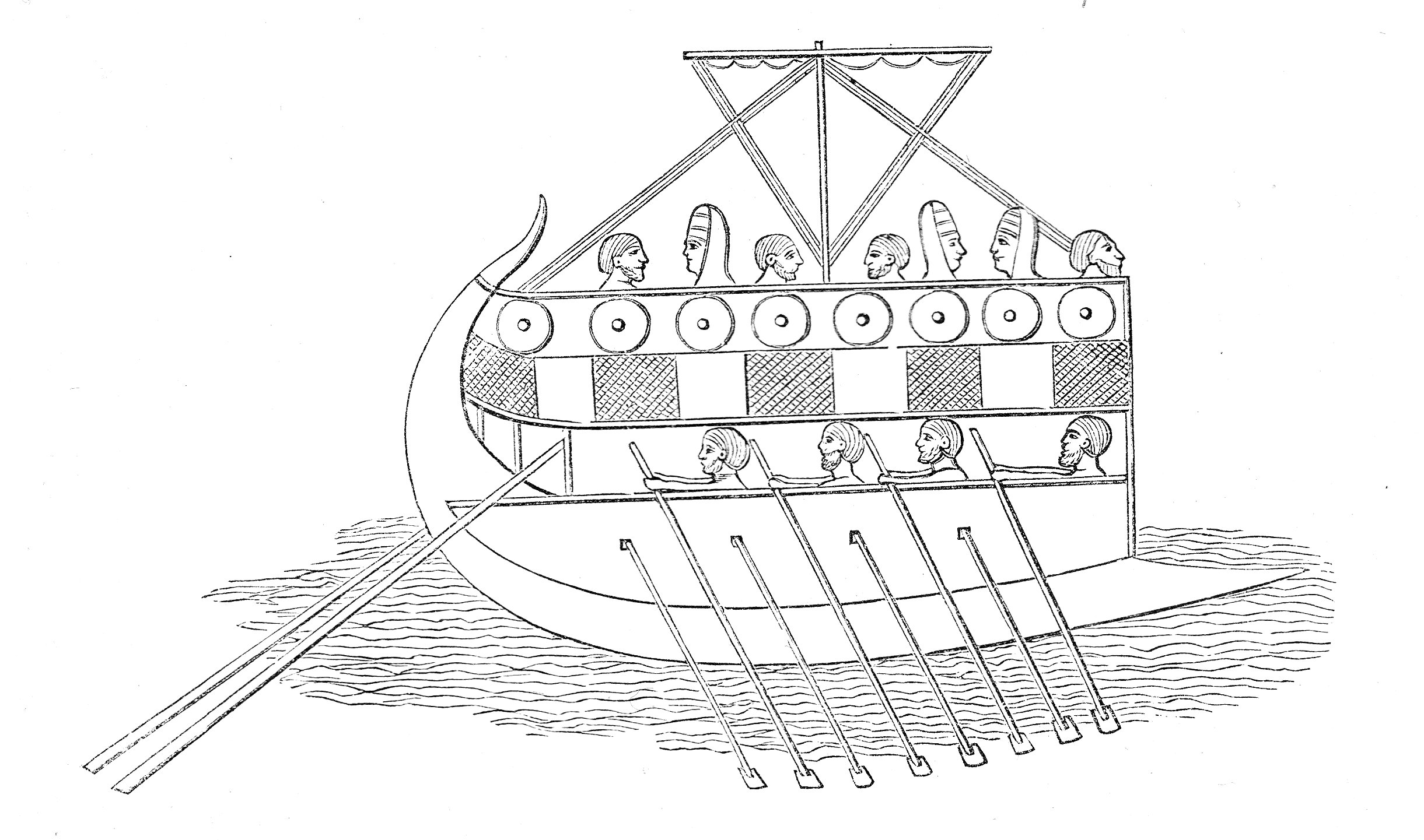 Illustration from "Illustrerad verldshistoria utgifven av E. Wallis. volume I": Phoenician ship.